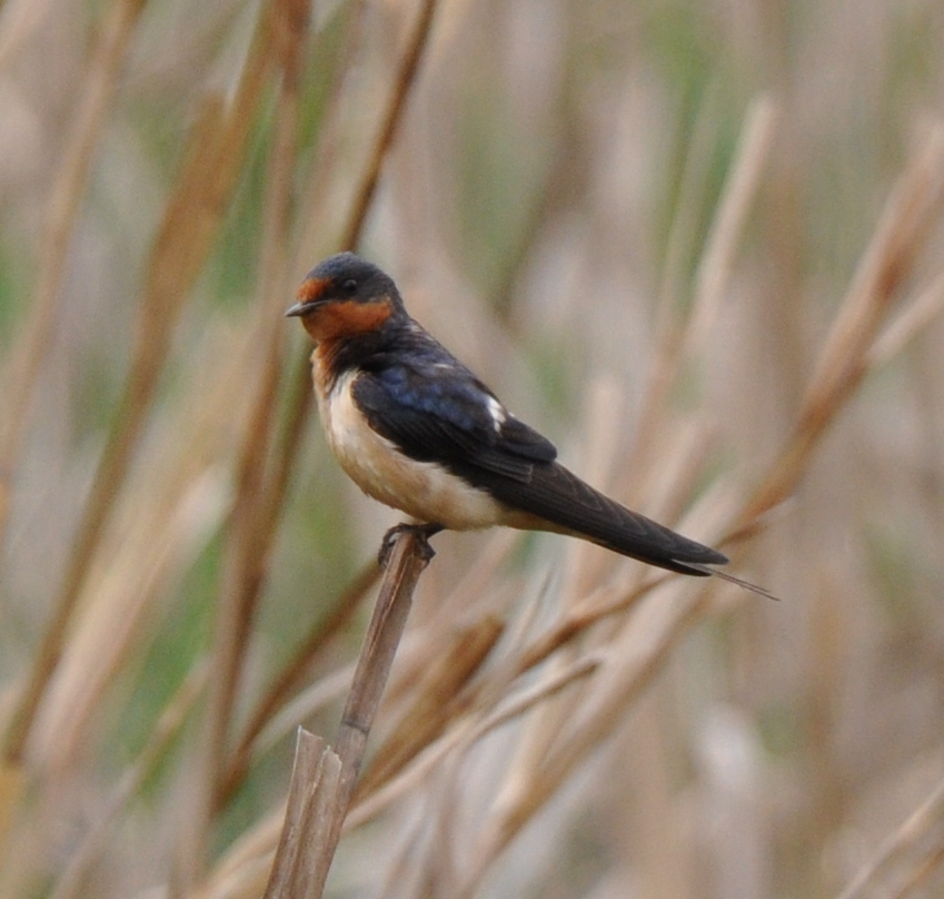 A Barn Swallow at Cuyahoga Valley National Park, Ohio, USA.